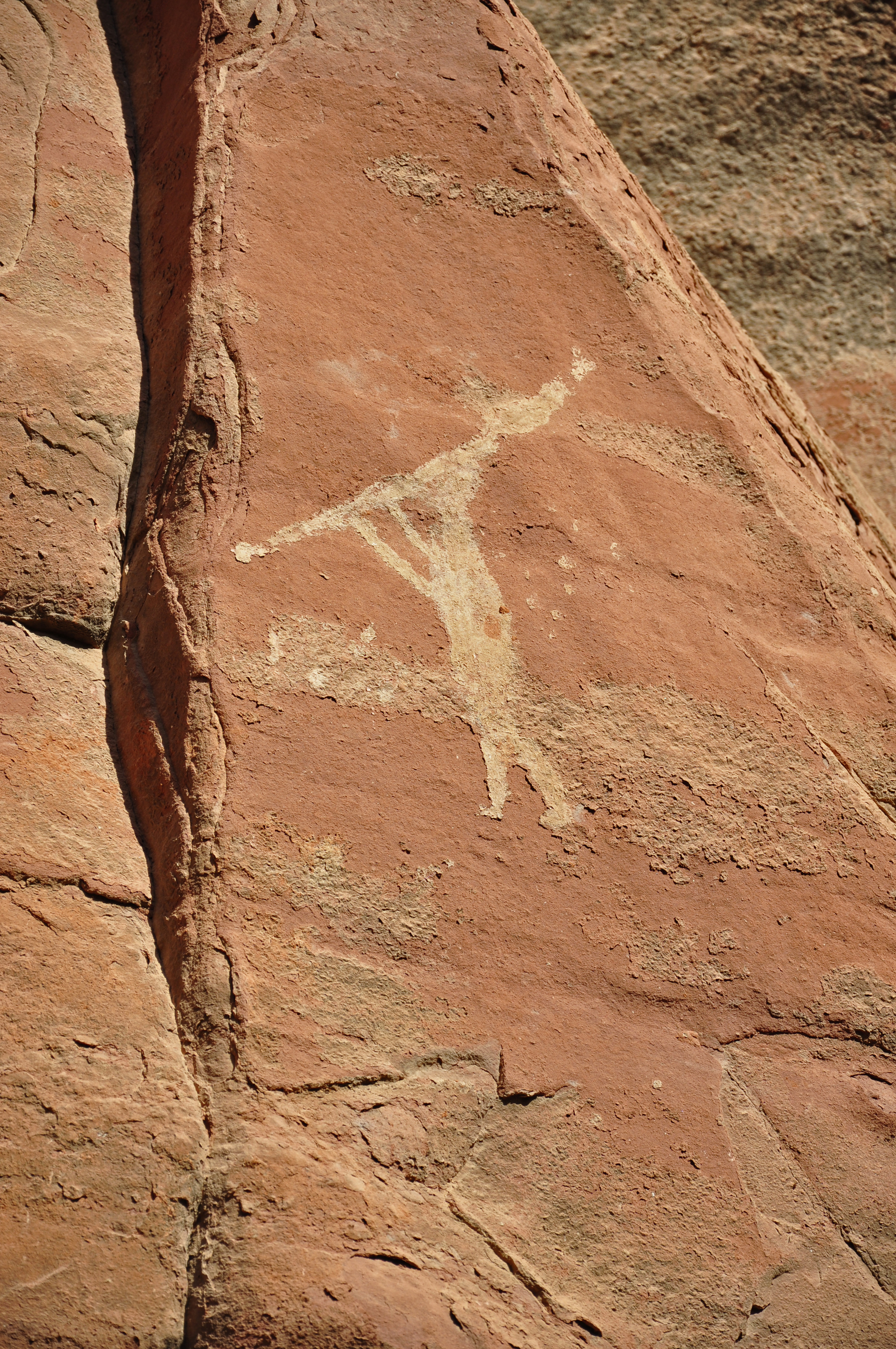 Pictograph of the prehistoric shamanic symbol "Kokopelli" at the Honanki Heritage Site Located in the Coconino National Forest, Arizona. Travel directions: Coconino National Forest: Honanki Heritage Site. Credits Taken 11-11-09 by Brady Smith. Credit: USDA Forest Service, Coconino National Forest.